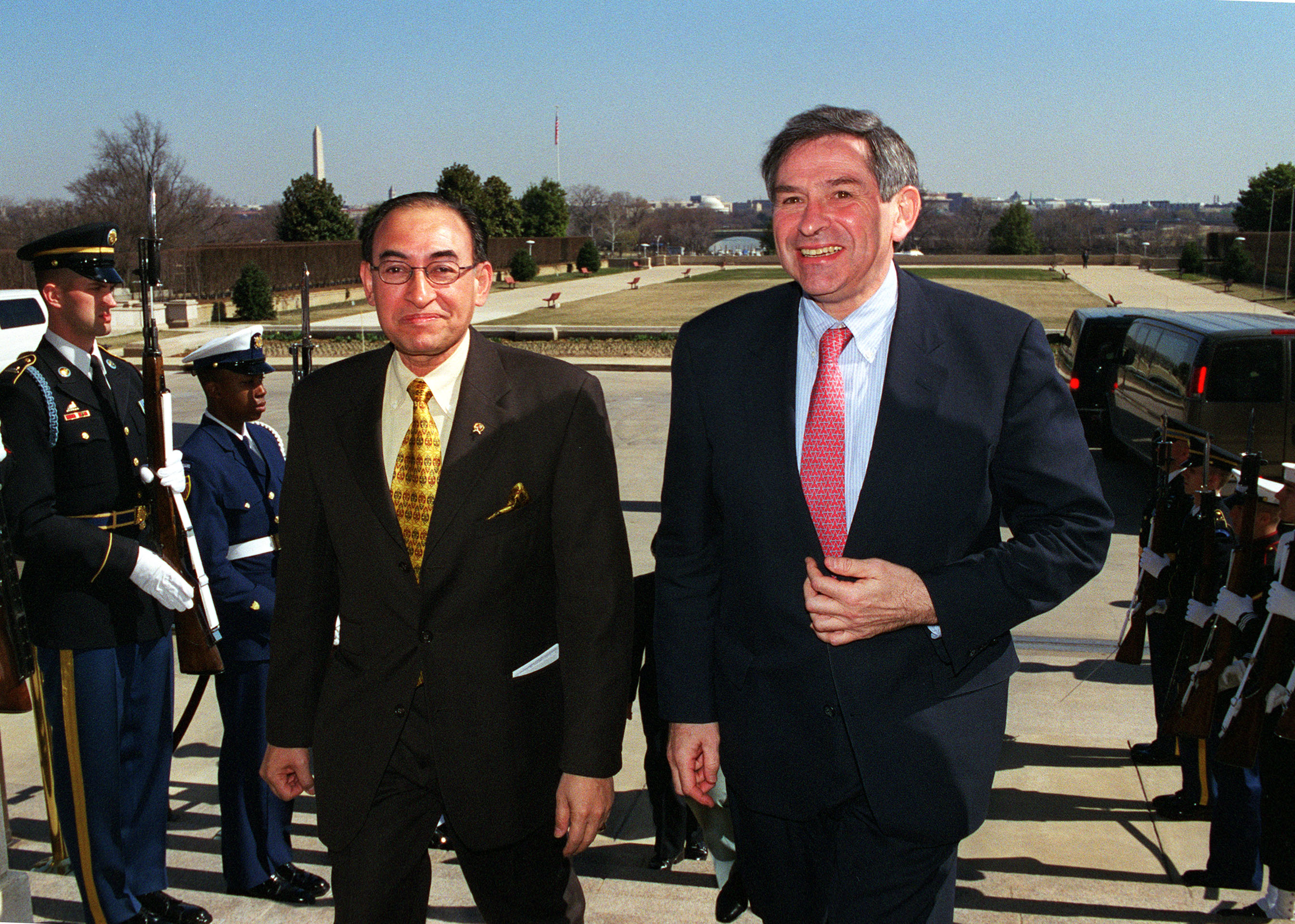 Indonesian Minister of Foreign Affairs Alwi Abdurrahman Shihab (left) is escorted through an honor cordon and into the Pentagon by Deputy Secretary of Defense Paul Wolfowitz on March 12, 2001. Shihab and Wolfowitz are meeting to discuss regional security issues of interest to both nations.